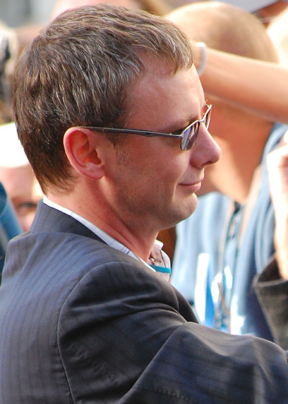 John Simm signing autographs at the European Premiere of Dark Knight